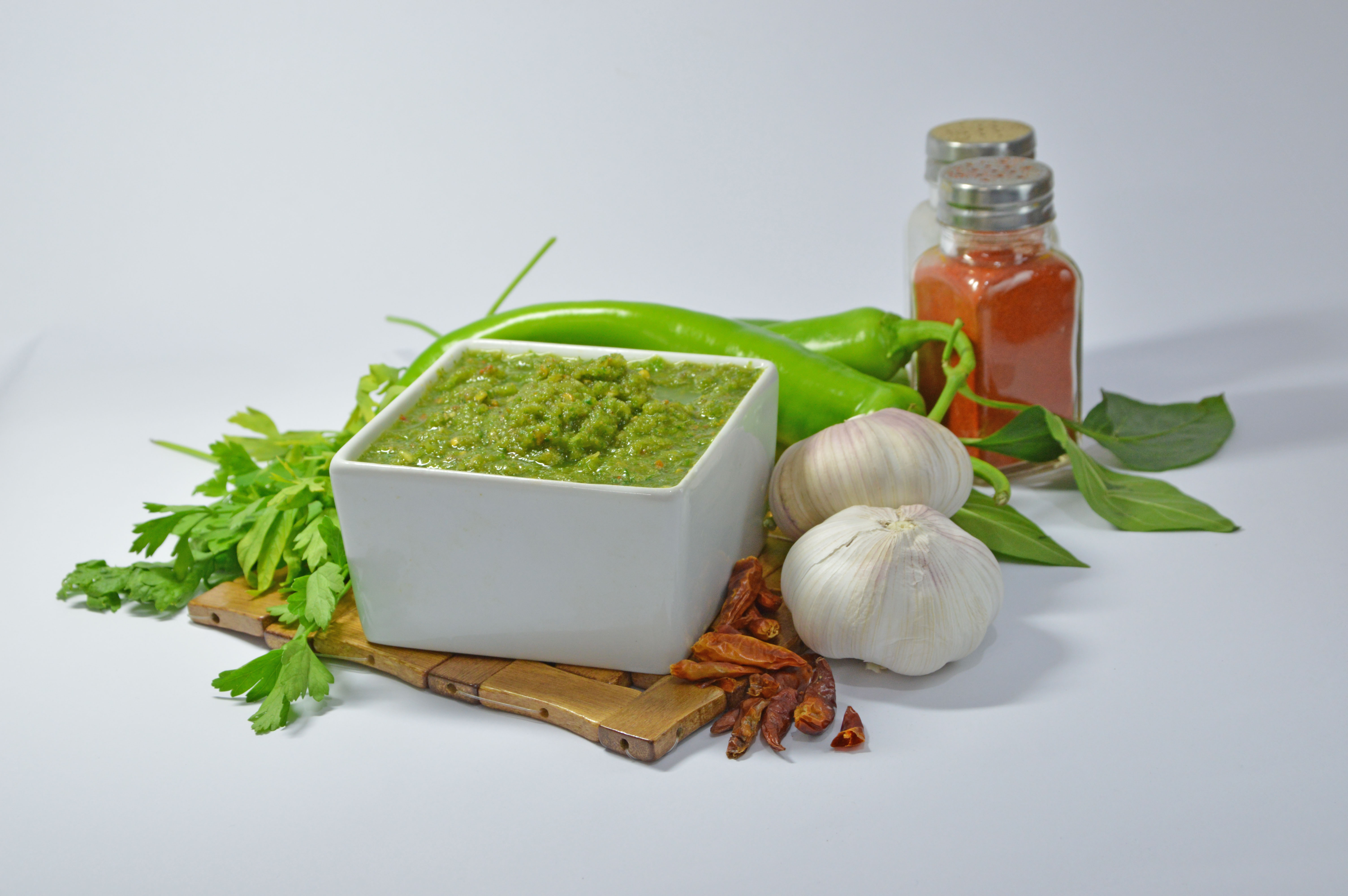 Zhug - Skhug is made from fresh red or green hot peppers seasoned with coriander, garlic, salt, cumin and various spices